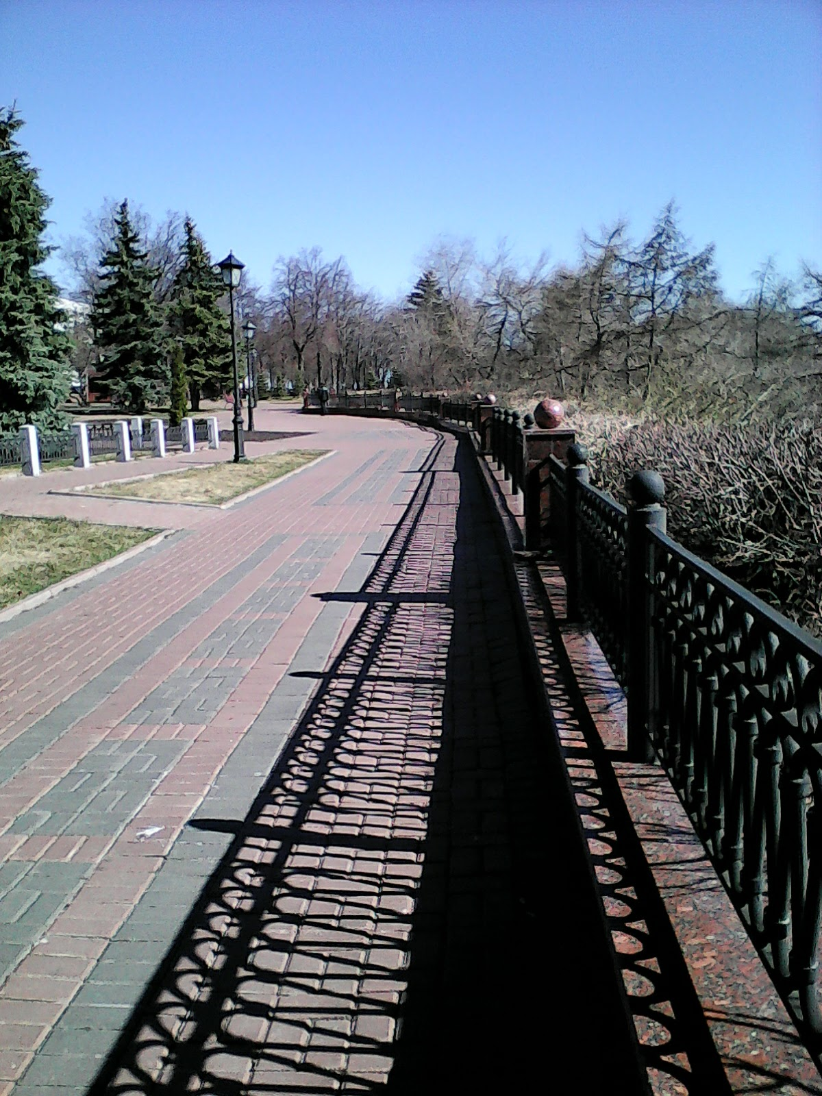 Novy Venets Boulevard in city of Ulyanovsk after reconstruction of 2011.